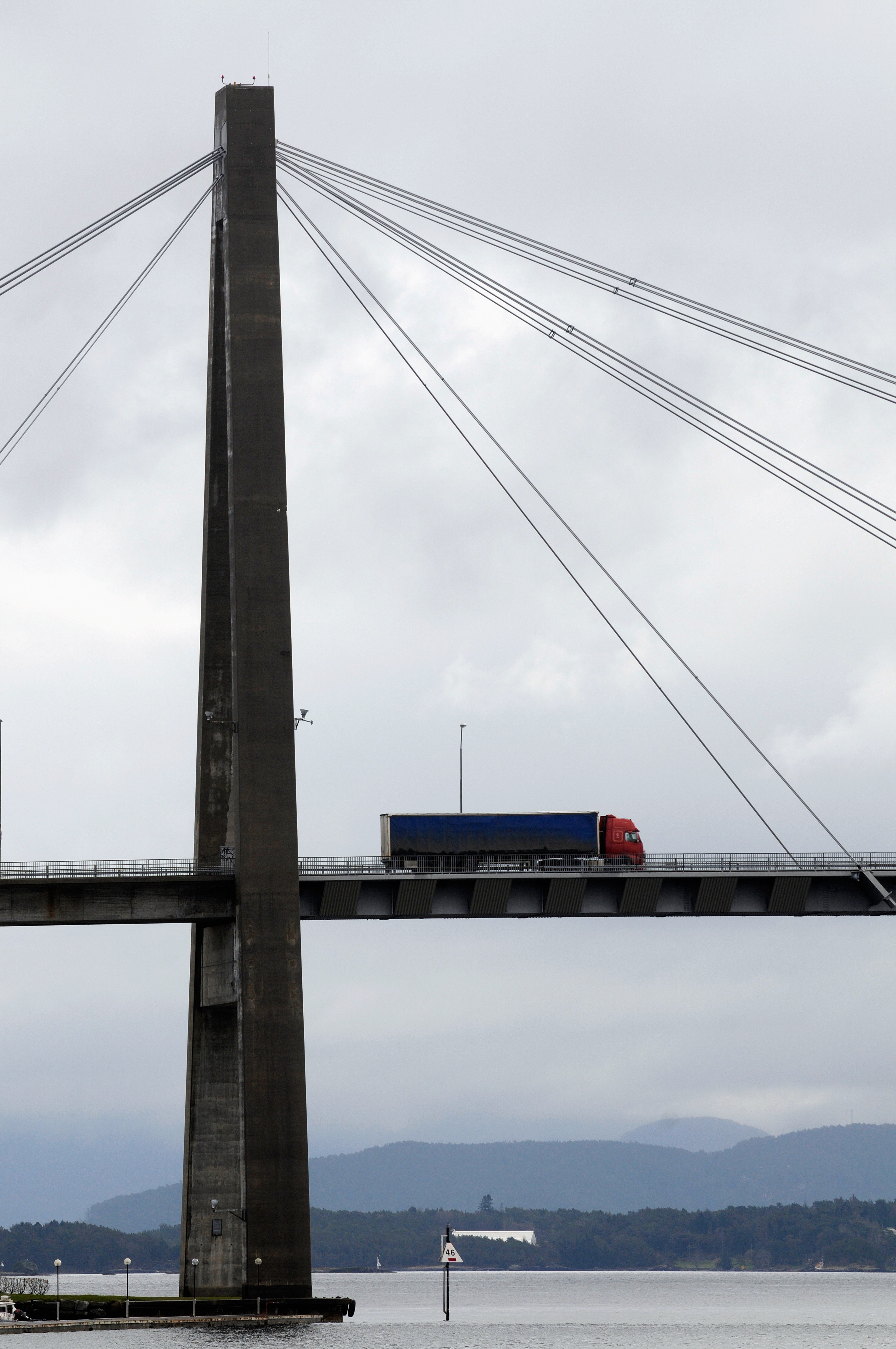 Vy från Stavanger Norge Keywords: Architecture, Transport, Norway Data-uid: c785ad3df3fc9b9e7af64b533f58357d